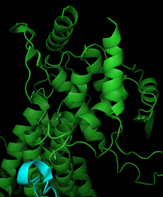 PDB rendering based on 1T6J